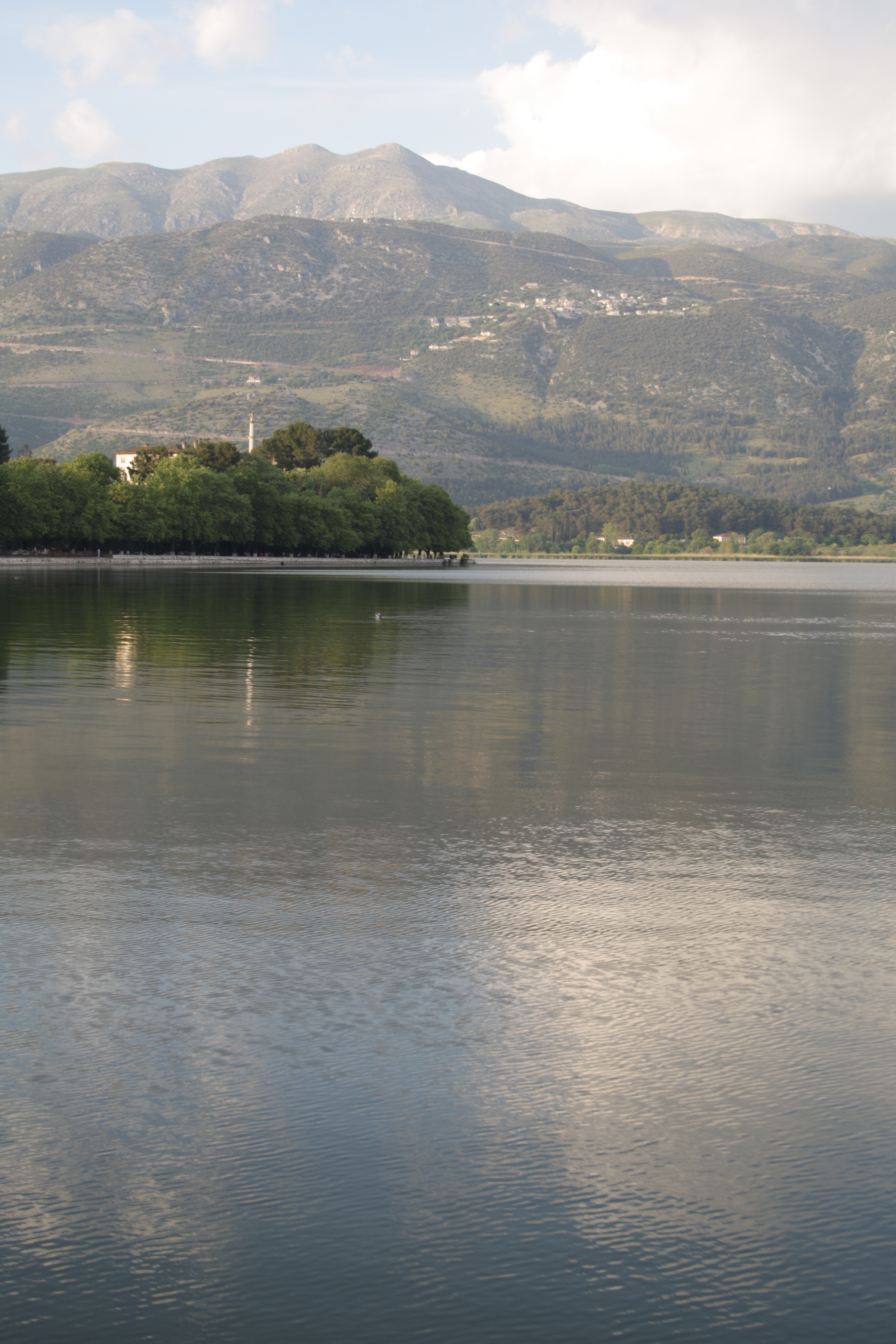 Northern shore of Ioannina Lake, Greece; above the village Lingiades